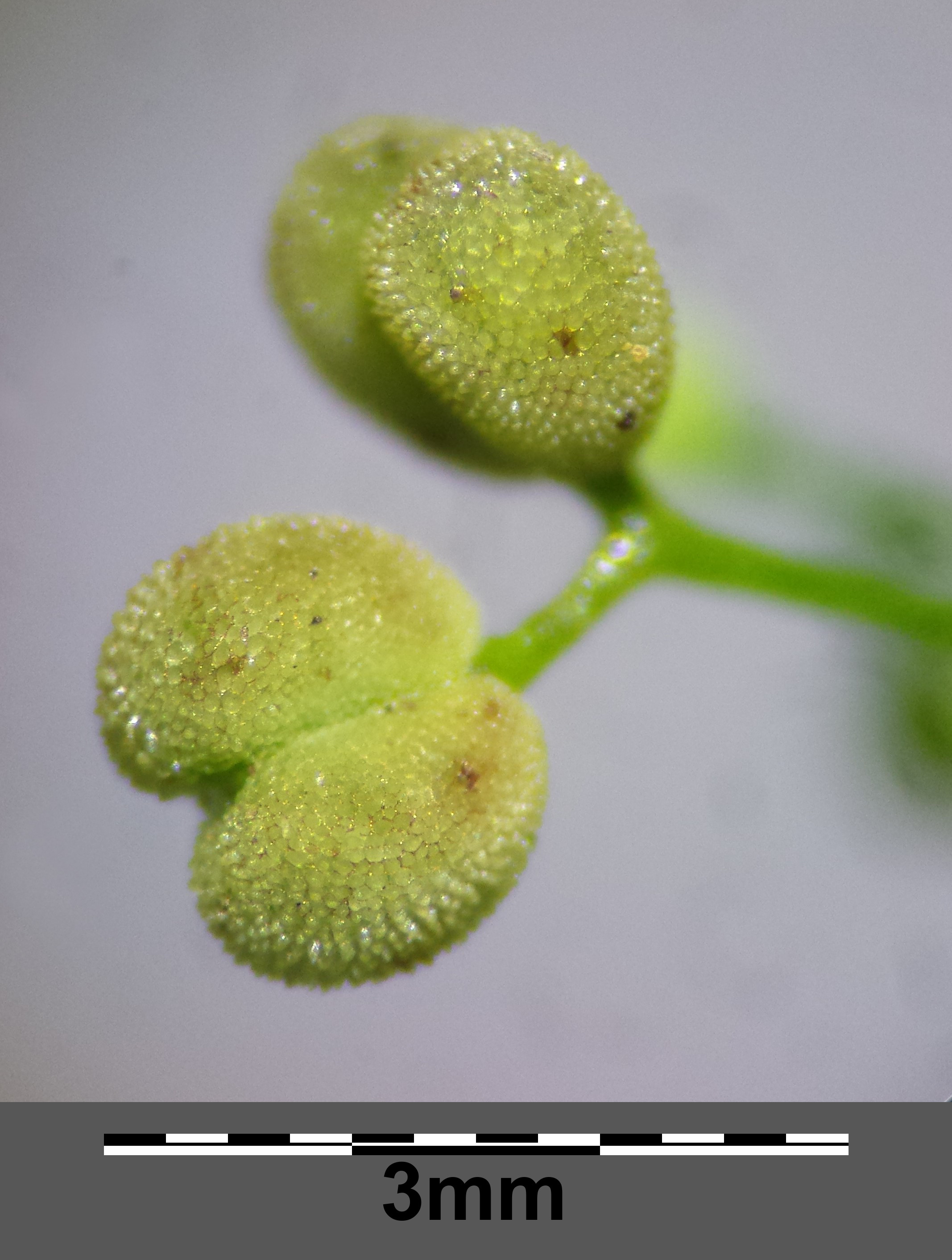 Fruits Taxonym: Galium uliginosum ss Fischer et al. EfÖLS 2008 ISBN 978-3-85474-187-9 Location: nearby Riebeis, Rappottenstein, district Zwettl, Lower Austria - ca. 760 m a.s.l. Habitat: border of a shrubbery